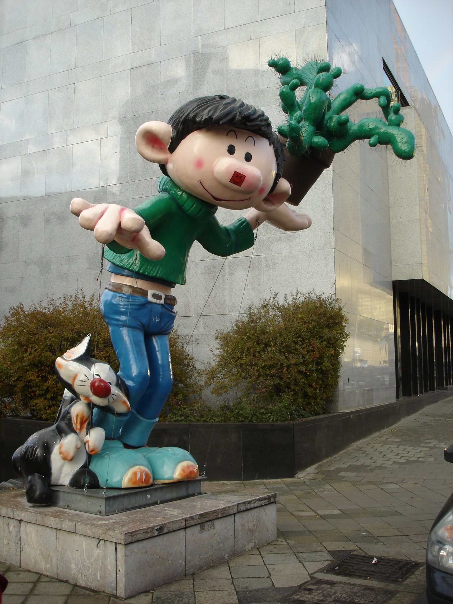 A statue of the fictional character Gaston Lagaffe, Rue des Sables, Bruxelles.